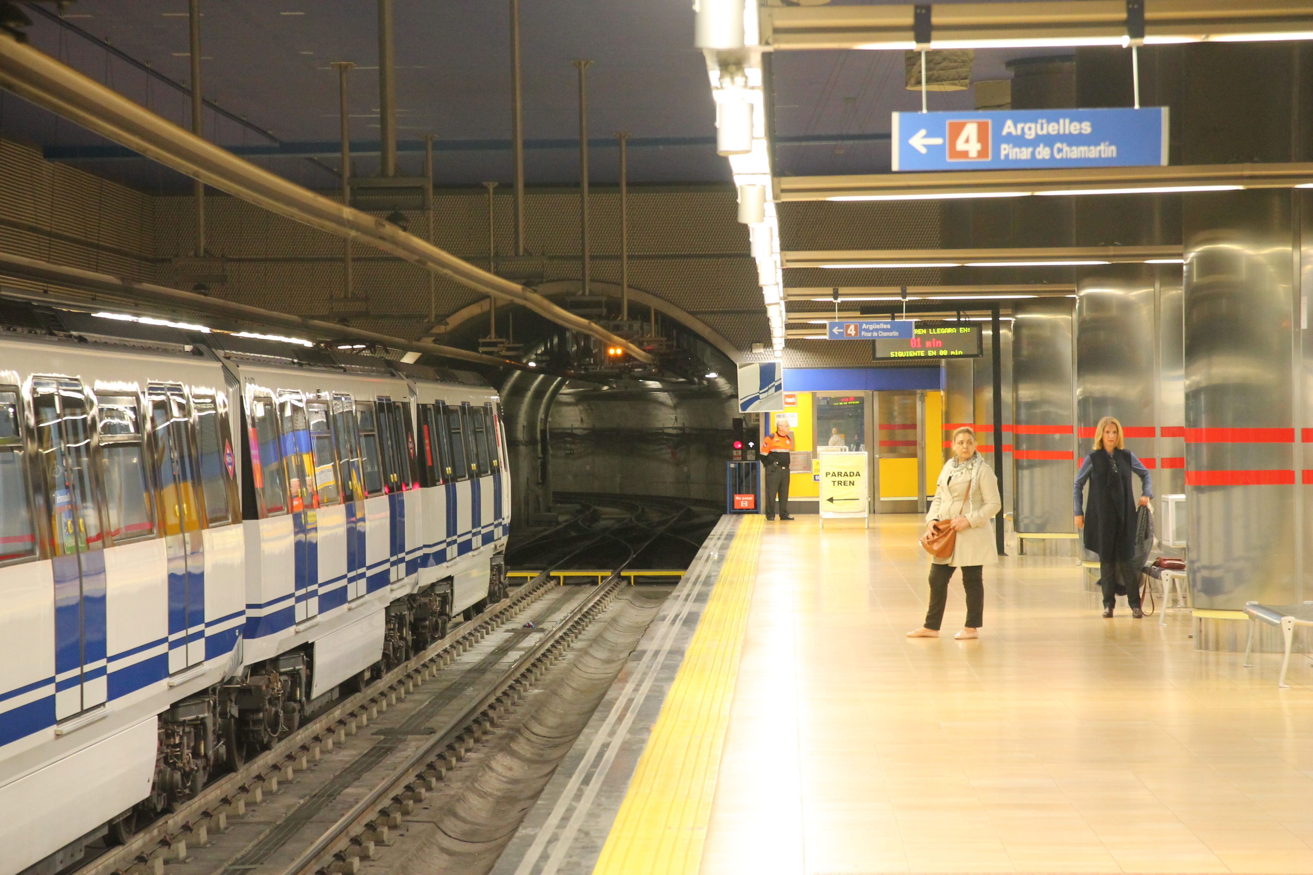 Estación de Pinar de Chamartín